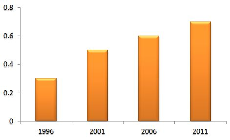 As per title.